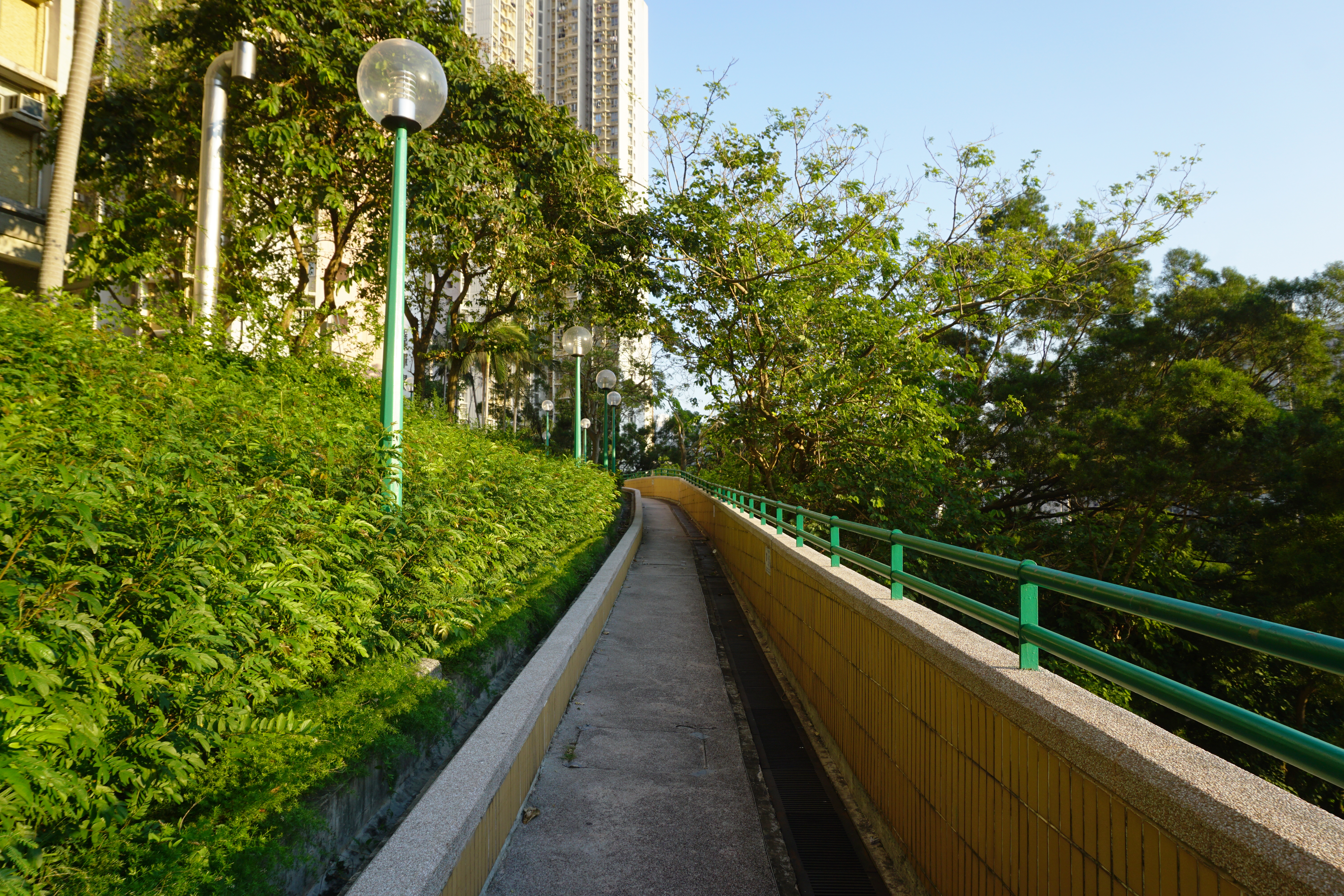 Hiu Lai Court in Sau Mau Ping, Hong Kong.